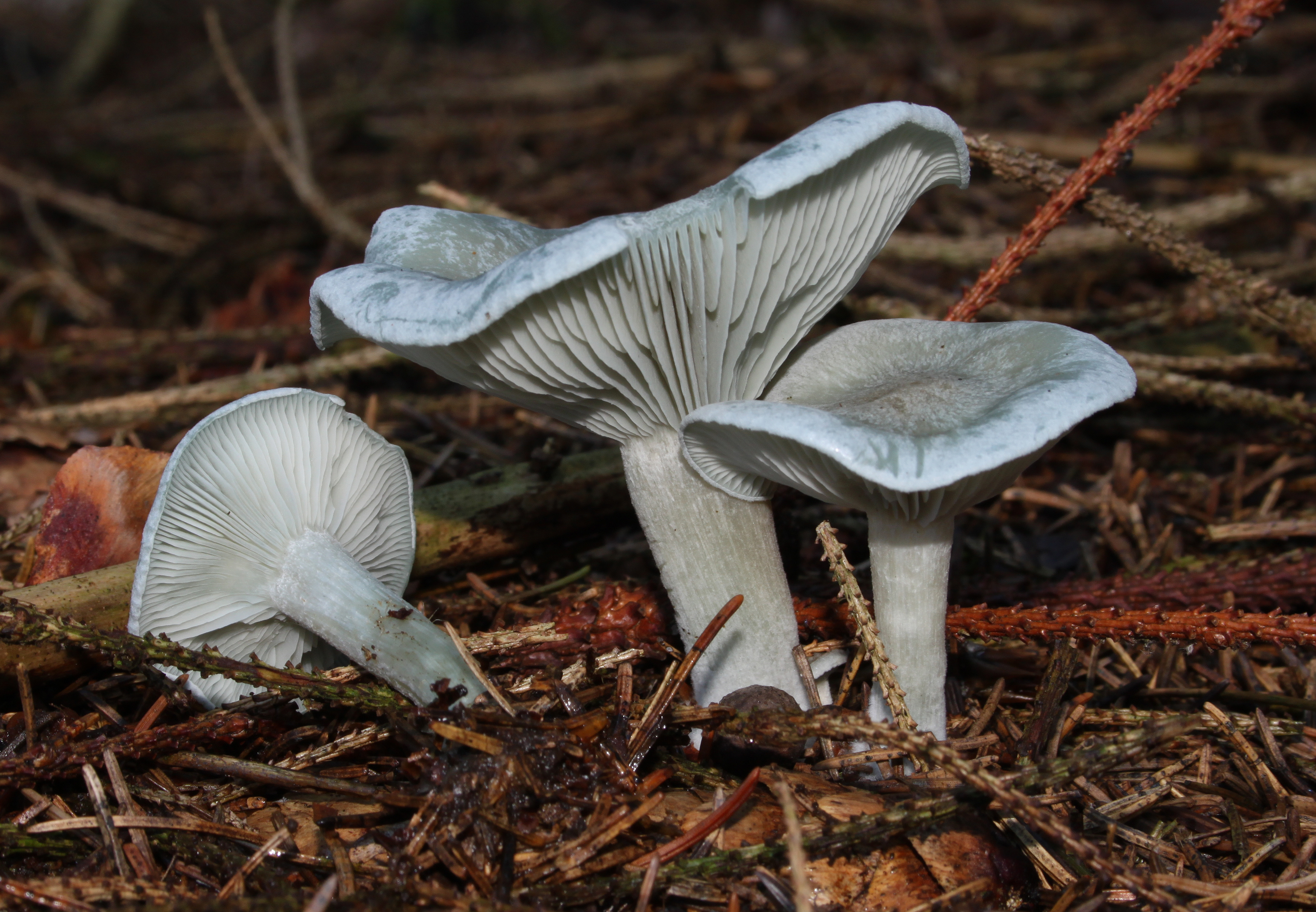 Aniseed toadstool, Clitocybe odora, Family: Tricholomataceae, Location: Southern Germany, Baden-Württemberg, Ulm.